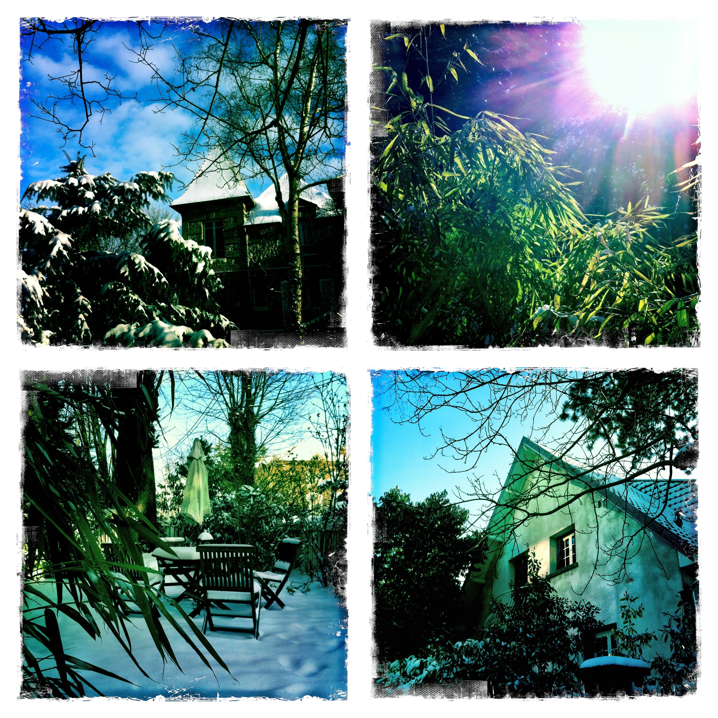 Views of the "Sentier des Pierres Blanches" in Meudon , Haut de Seine , Ile de France, France in January 2013 - Pictures taken by Guy Courtois